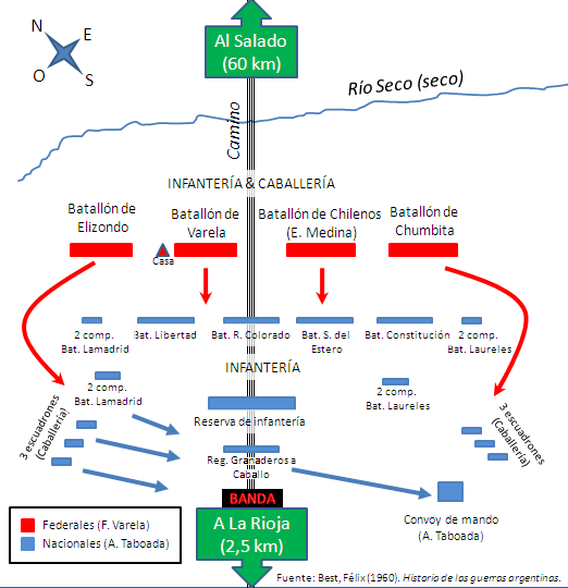 Battle of Pozo de Vargas. 1867. Argentina.